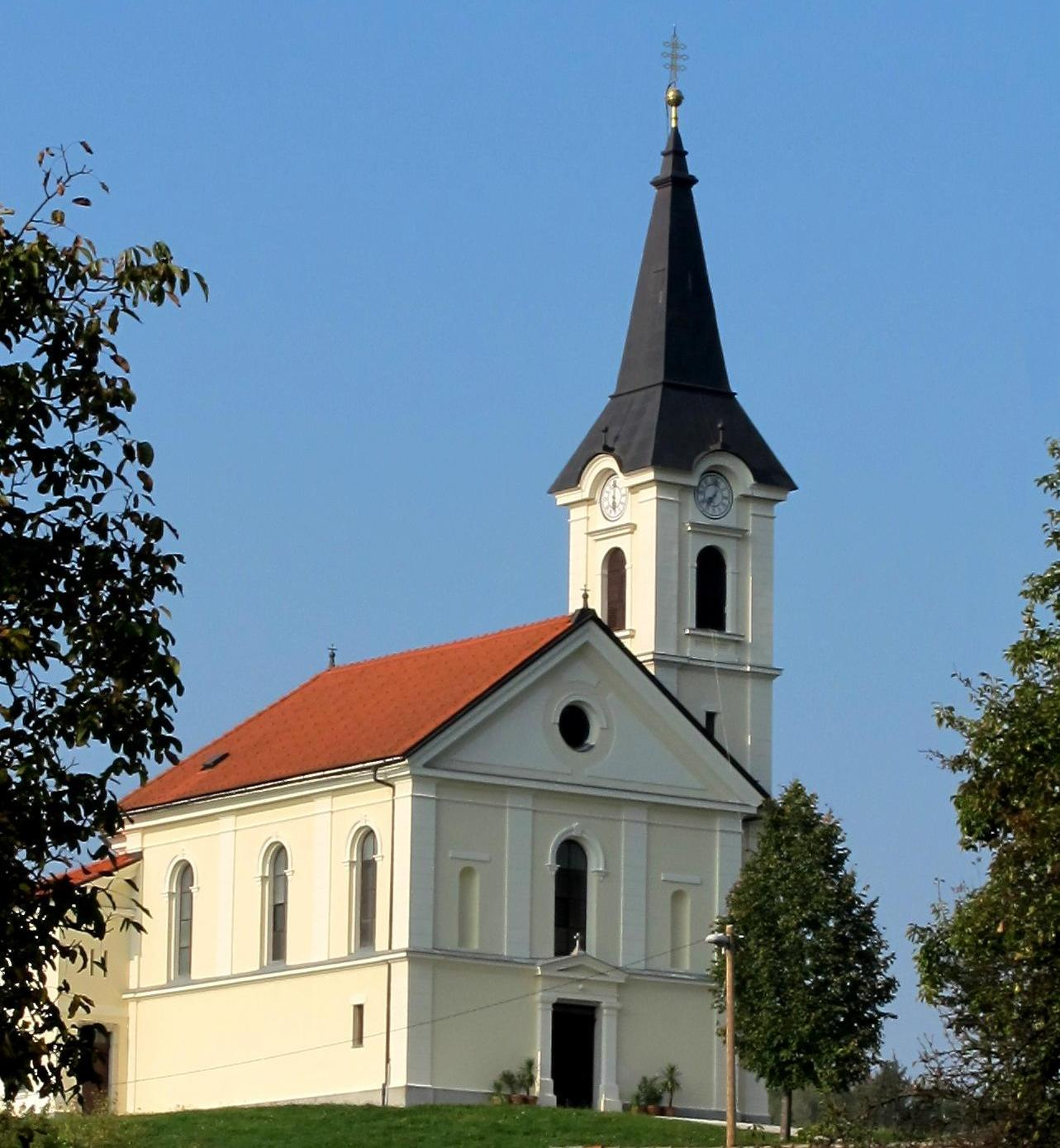 Saint Anne's Church in Javor, City Municipality of Ljubljana, Slovenia.